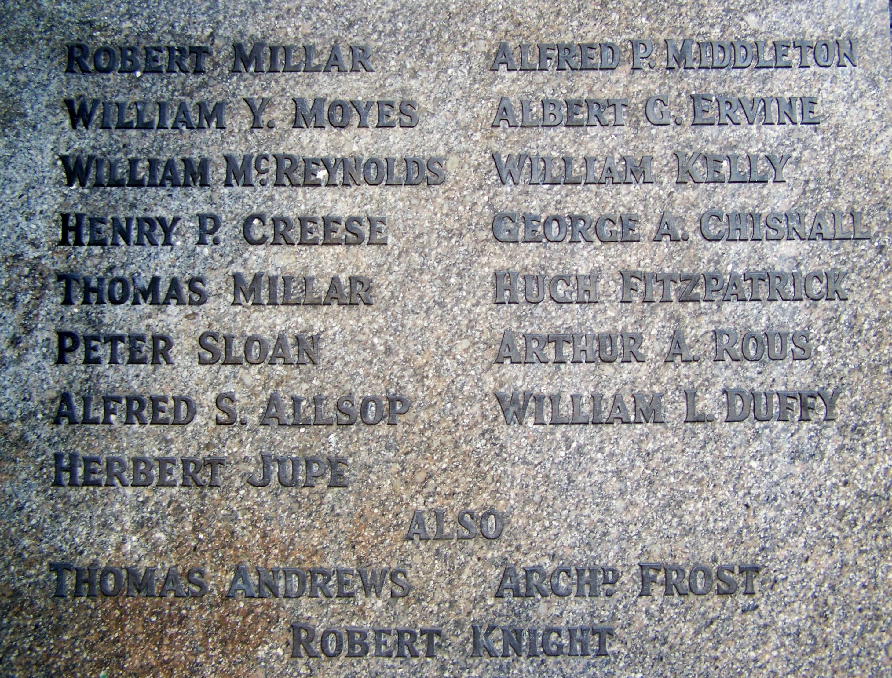 List of Engineer Officers who died in the RMS Titanic disaster on 15 April 1912